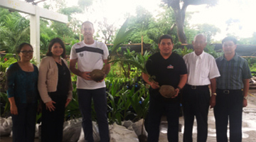 Photo shows Azkals coach Thomas Dooley and Azkals manager Dan Palami (center) during their visit at the Institute of Plant Breeding (IPB). Together with the two Azkals representatives were (from left to right) Dr. Hayde Galvez of the Institute of Plant Breeding (IPB); Maria Teresa Bien de Guzman, PCAARRD Deputy Executive Director for R&D; Dr. Ponciano Batugal, PCAARRD Chair of the Coconut and Palm Oil Industry Cluster, and Dr. Johnny Batalon of PCAARRD Crops Research Division.